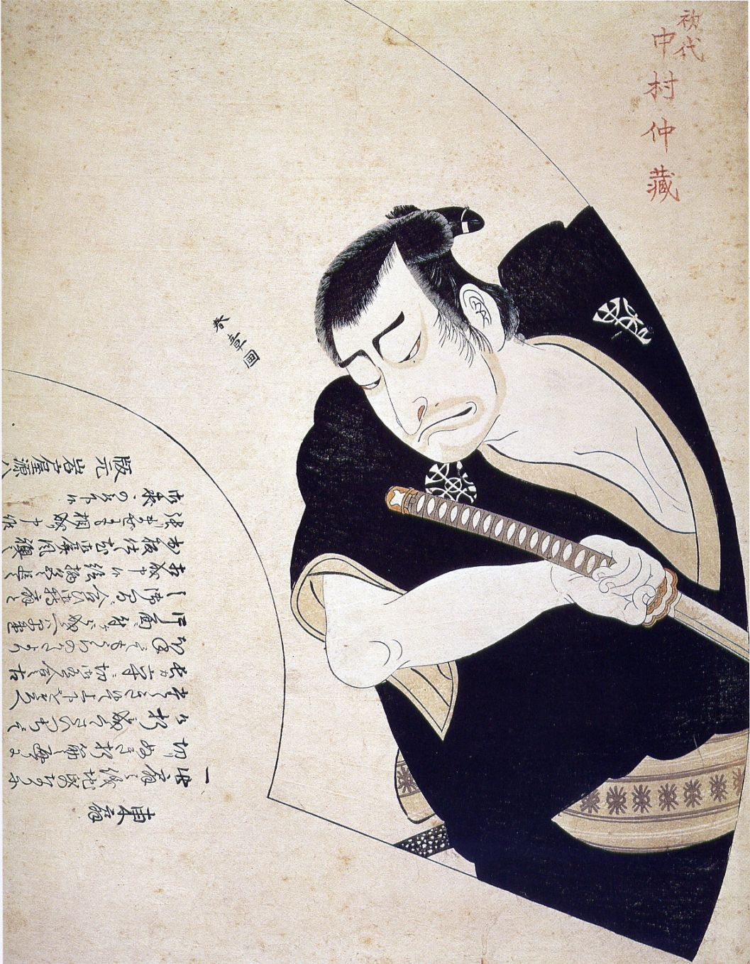 Katsukawa Shunsho: The actor Nakamura Nakazo I, 1770. Color print, 38x26 cm.